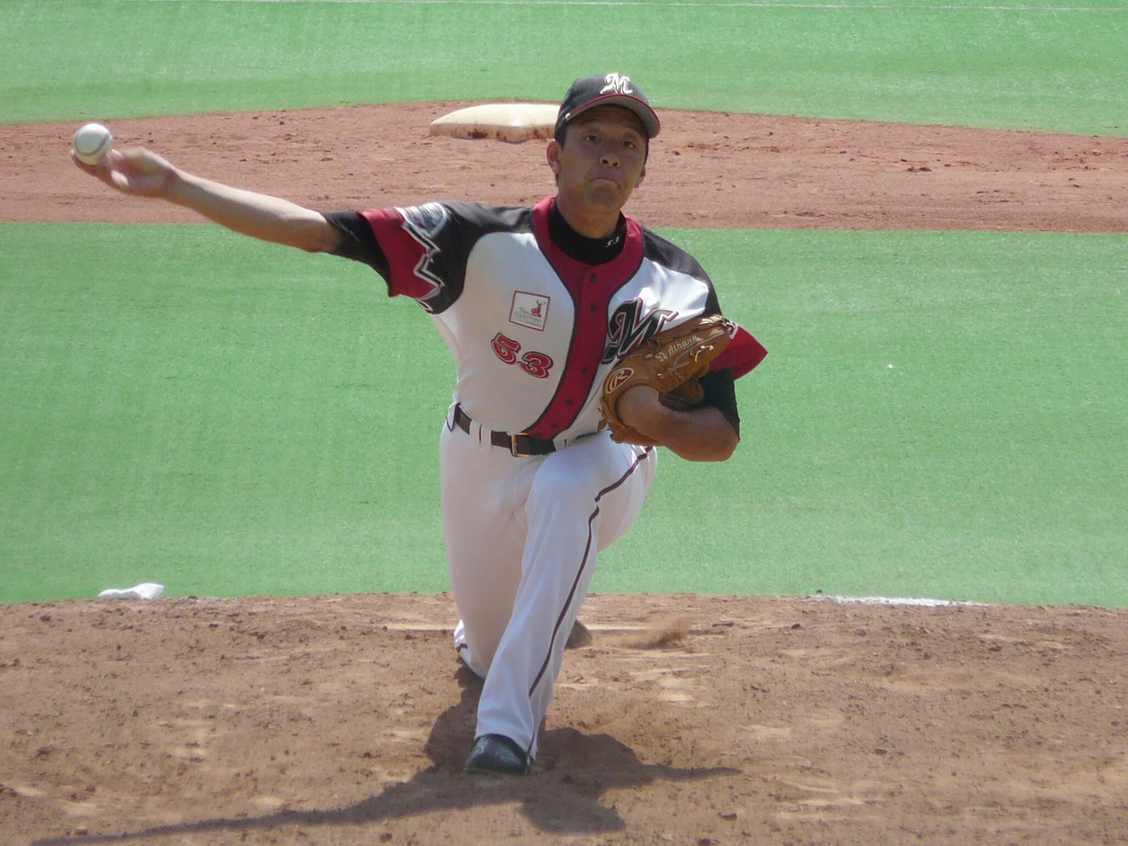 Katsuyuki Aihara, pitcher of the Chiba Lotte Marines, at Chiba Marine Stadium.